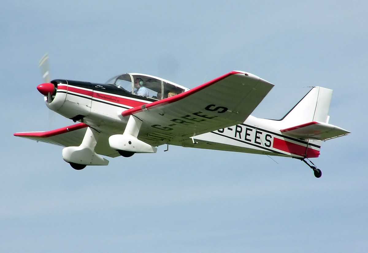 Jodel D140C Mousquetaire (UK registration G-REES, built 1965) at Kemble Airfield, Gloucestershire, England. Photographed by Adrian Pingstone in July 2005 and released to the public domain.